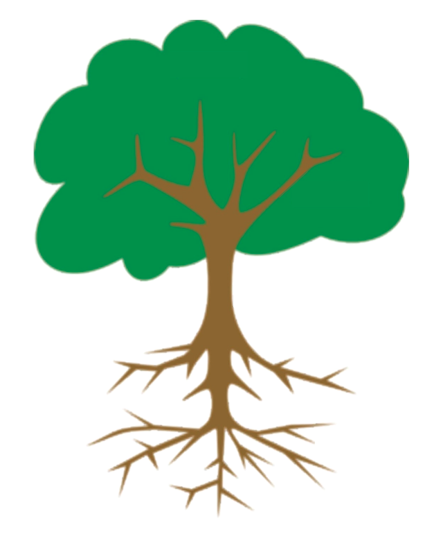 Drawing of the parts of a tree.